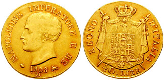 Kingdom of Italy. Napoleon. 1805-1813. AV 40 Lire (12.84 gm). Milan mint. Dated 1808M. Bare head left, NAPOLEONE IMPERATORE E RE Crowned and draped royal coat-of-arms, REGNO D'ITALIA. Lettered edge in relief: DIO PROTEGGE L'ITALIA.